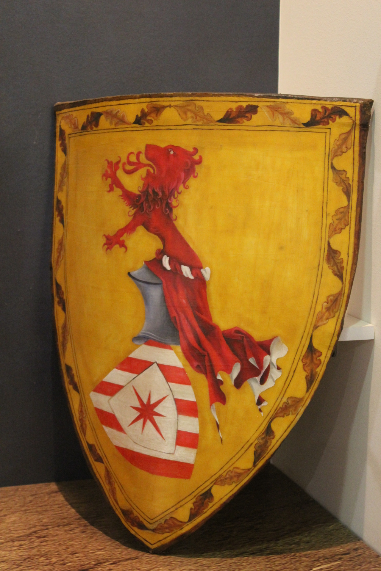 Shield with heraldic motifs from Serbia in the fifteenth century (from Mara's ring). Srpski (latinica): Štit sa heraldičkim motivima iz Srbije XV veka (sa Marinog prstena).